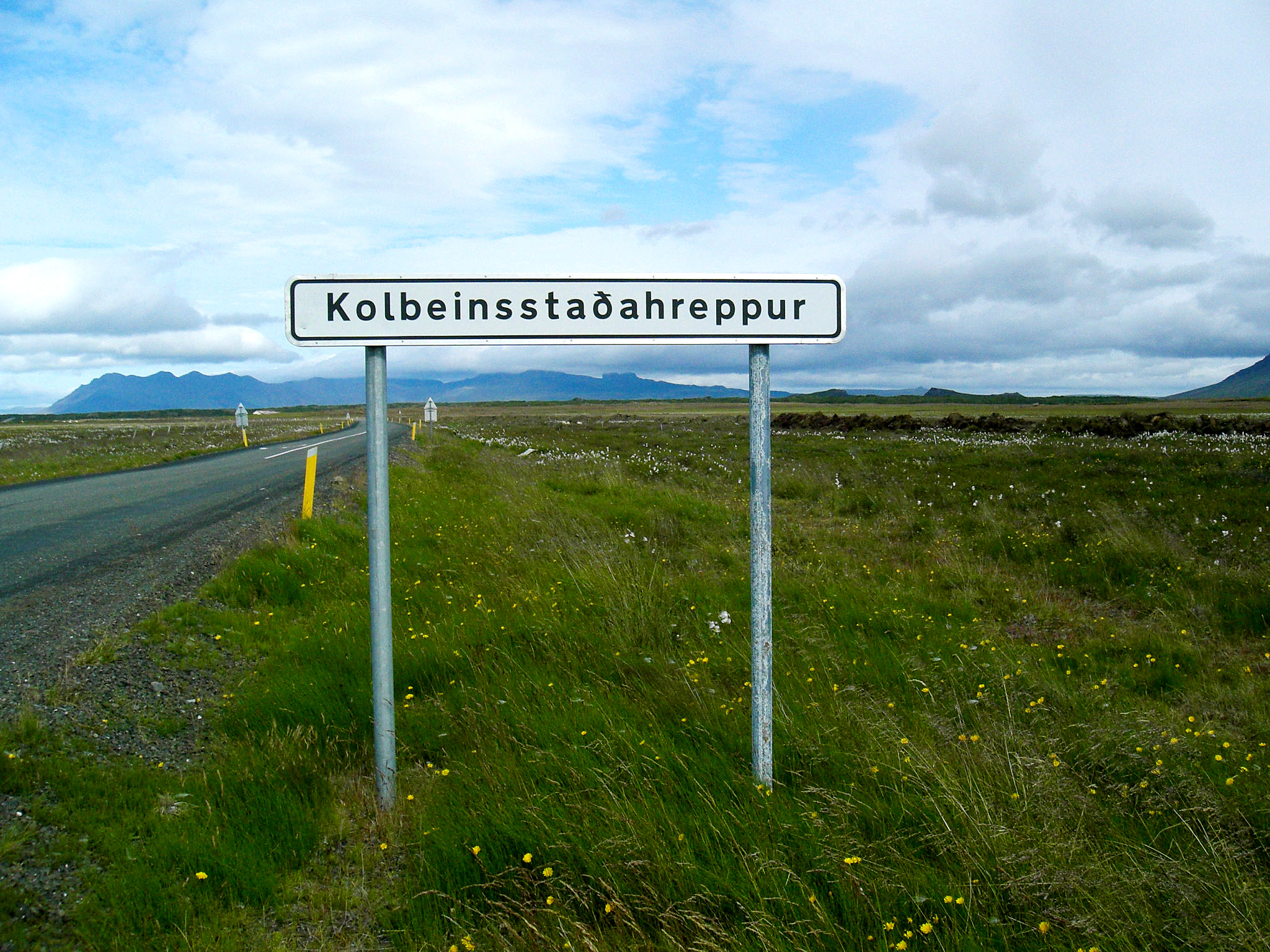 Iceland, place-name sign, road sign, traffic, in the middle of nowhere